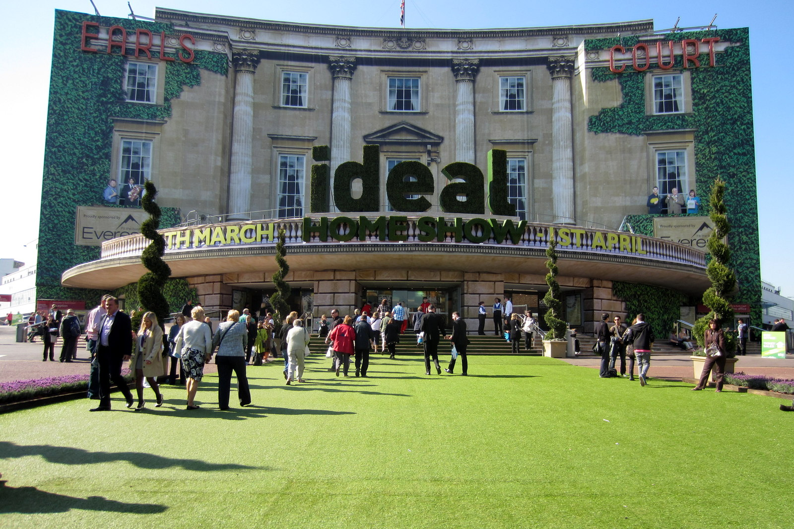 Earl's Court Exhibition centre